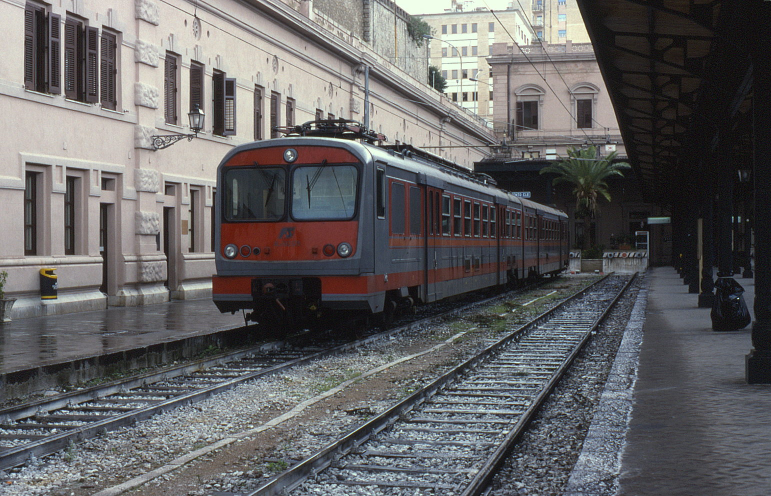 2-car EMU ALe582.028 at Agrigento Centrale, 14 November 1995.